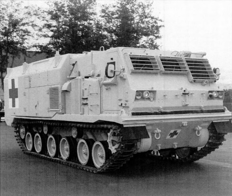 Task Force XXI Armored Treatment and Transport Vehicle (ATTP) developed and built by UDLP, utilizing platform and chassis essentially identical to the M270 MLRS